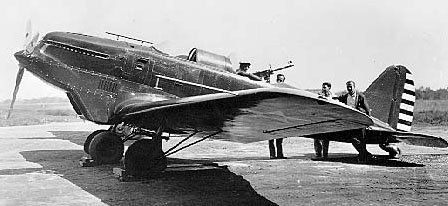 Detroit-Lockheed YP-24 side view. (U.S. Air Force photo)